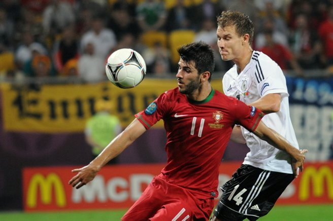 Match between Germany and Portugal during UEFA Euro 2012 that took place in Lviv. Final score was 1:0 (Gómez).